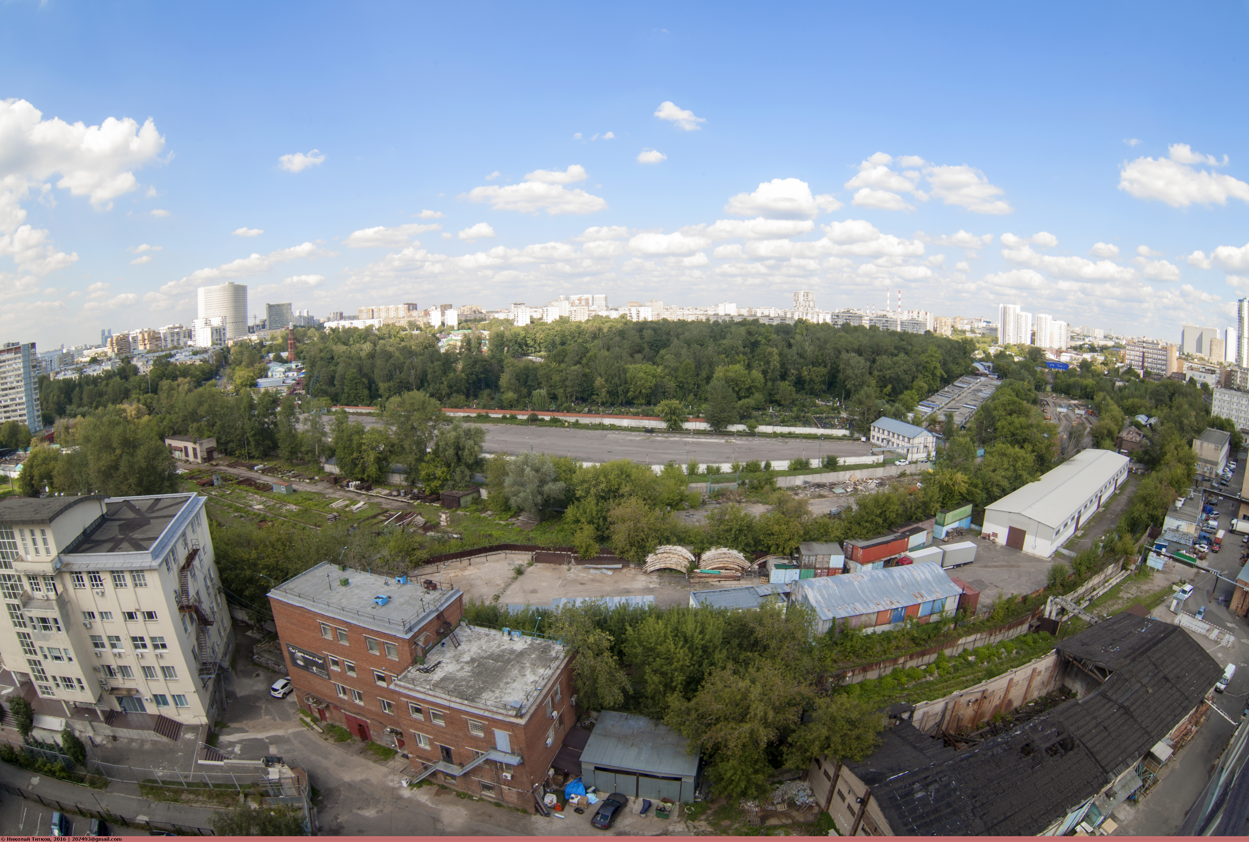 Вид с Ткацкой улицы на район «Преображенское». Справа — Преображенское кладбище, впереди — колокольня Никольского единоверческого монастыря. Дуга, вдоль которой выстроены гаражи и огромная парковка - место, где протекала река Хапиловка, а затем был обширный Хапиловский пруд. Снято объективом MC Zenitar-M2,8/16